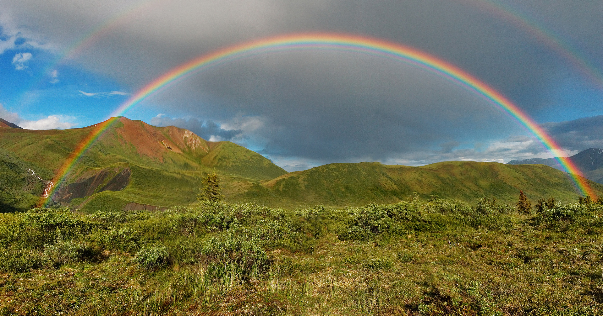 Full featured double rainbow in Wrangell-St. Elias National Park, Alaska.